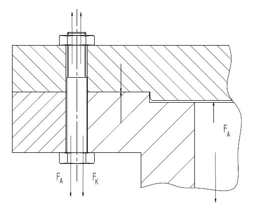 Clamping force, axial load